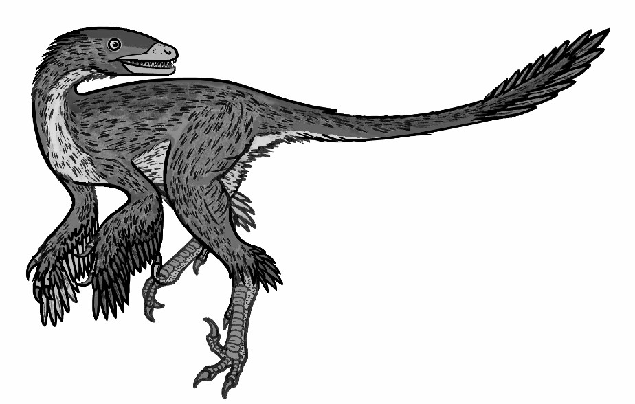 Illustration of the longtailed Troodontid Dinosaur Sinusonasus, found in China. The restoration is based on a fossil seen at The feather coat is based on other Troodontids, like Anchiornis and Jinfengopteryx, since no feathers are known in Sinusonasus at the time of writing.